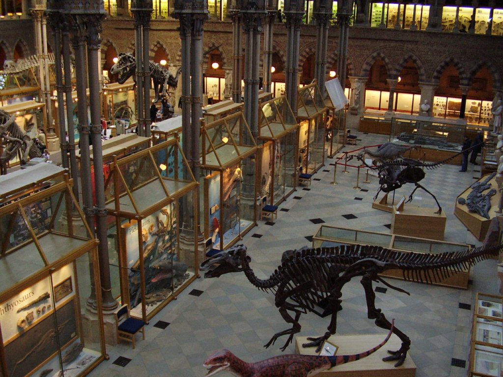 Inside Oxford's Natural History Museum.